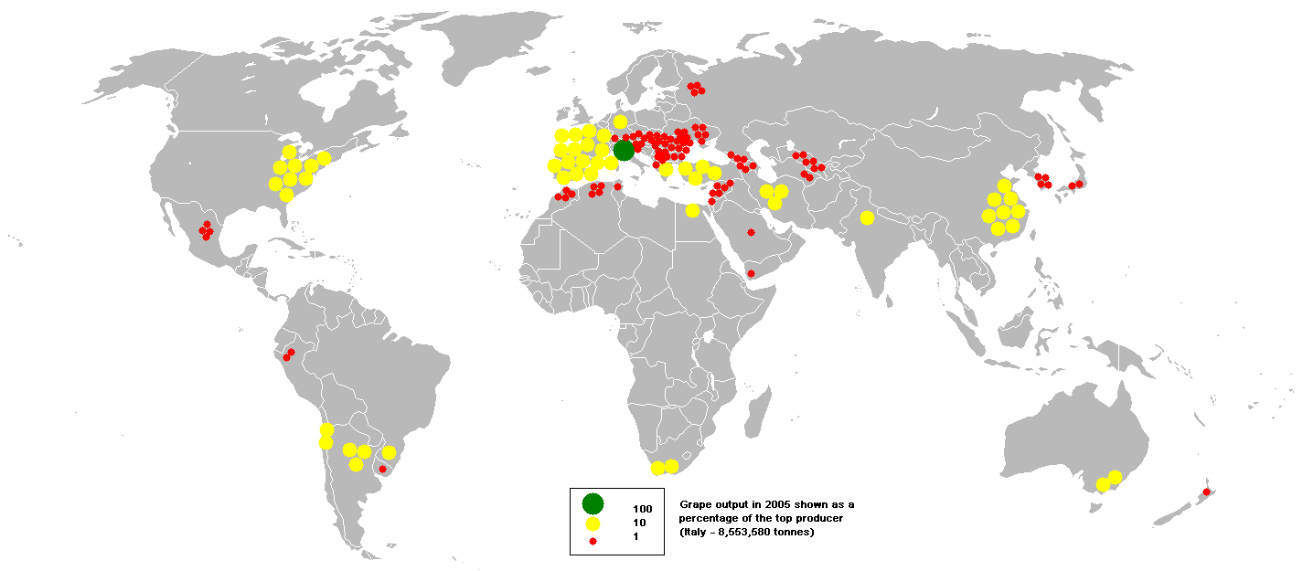 This bubble map shows the global distribution of grape output in 2005 as a percentage of the top producer (Italy - 8,553,580 tonnes). This map is consistent with incomplete set of data too as long as the top producer is known. It resolves the accessibility issues faced by colour-coded maps that may not be properly rendered in old computer screens. Data was extracted on 9th June 2007 from Based on Image:BlankMap-World.png